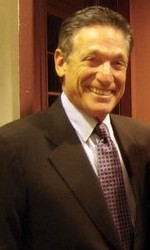 This is Maury Povich.